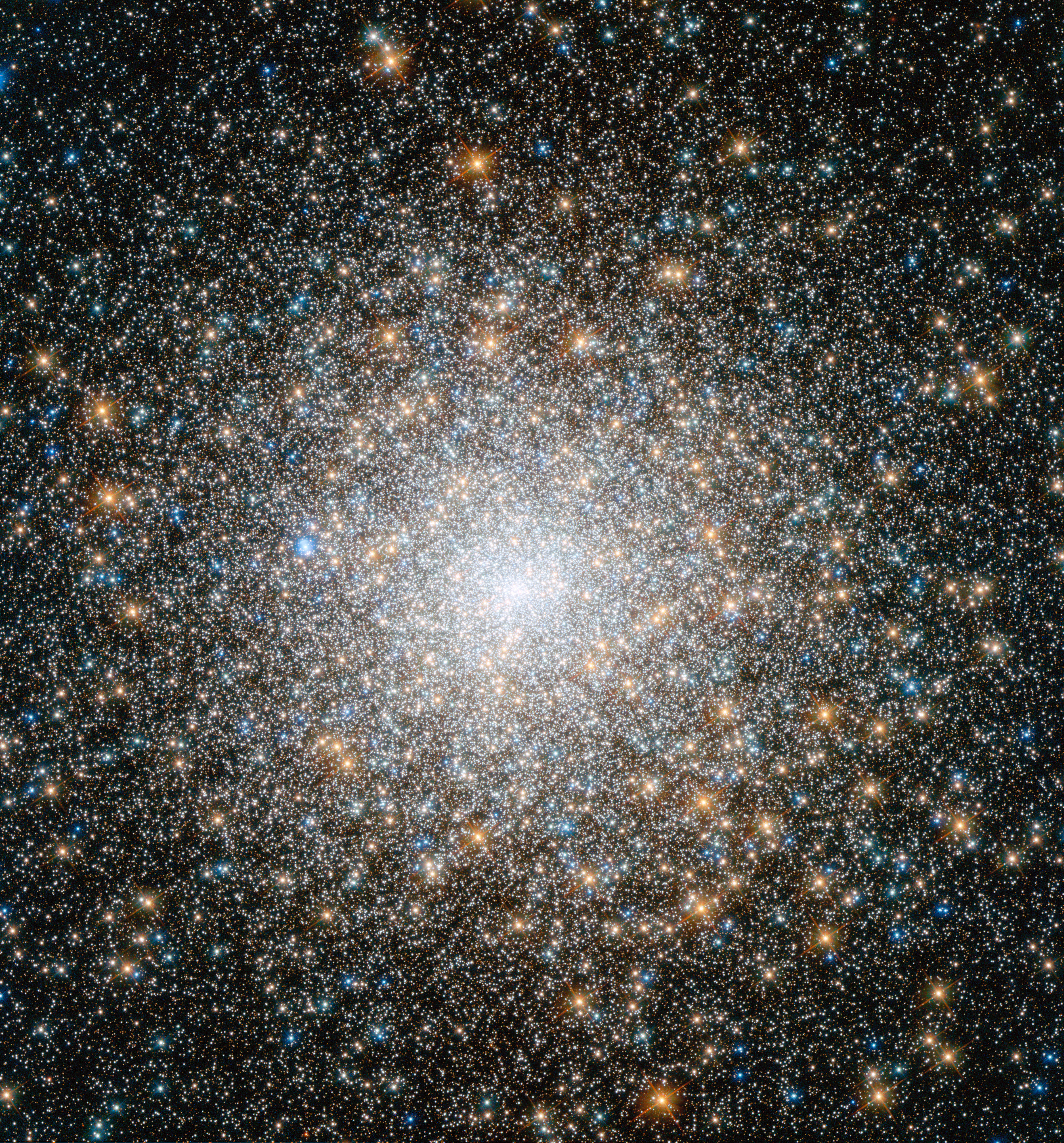 New Hubble image of star cluster Messier 15 This cluster of stars is known as Messier 15, and is located some 35 000 light-years away in the constellation of Pegasus (The Winged Horse). It is one of the oldest globular clusters known, with an age of around 12 billion years. Both very hot blue stars and cooler golden stars can be seen swarming together in the image, becoming more concentrated towards the cluster's bright centre. Messier 15 is one of the densest globular clusters known, with most of its mass concentrated at its core. As well as stars, Messier 15 was the first cluster known to host a planetary nebula, and it has been found to have a rare type of black hole at its centre. This new image is made up of observations from Hubble's Wide Field Camera 3 and Advanced Camera for Surveys in the ultraviolet, infrared, and optical parts of the spectrum. Coordinates Position (RA) : 21 29 58.09 Position (Dec): 12° 10' 1.62" Field of view: 2.48 x 2.66 arcminutes Orientation: North is 46.7° left of vertical Colours & filters Band Wavelength Telescope Ultraviolet U 336 nm Hubble Space Telescope WFC3 Ultraviolet UV 275 nm Hubble Space Telescope WFC3 Optical B 438 nm Hubble Space Telescope WFC3 Optical V 606 nm Hubble Space Telescope ACS Infrared I 814 nm Hubble Space Telescope ACS .